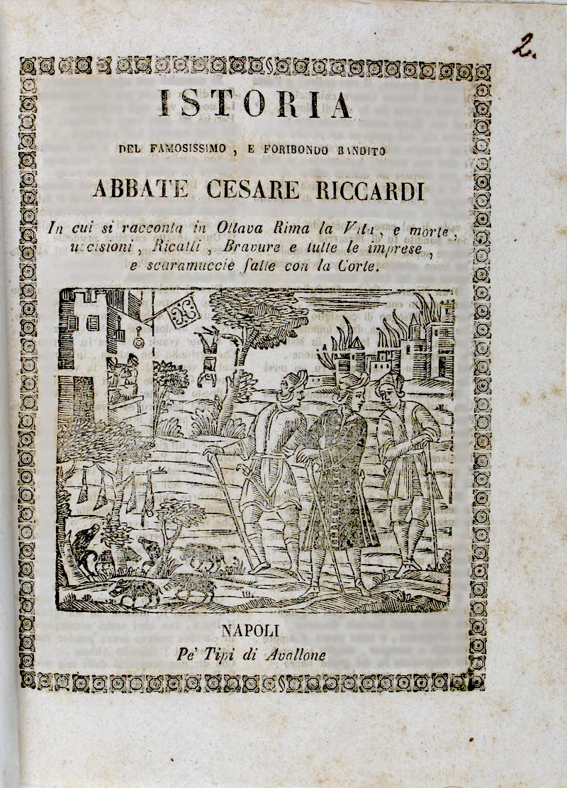 woodcut of the cover of book " Istoria del famosissimo e foribondo bandito Abbate Cesare Riccardi " with the narration of life of brigant Cesare Riccardi